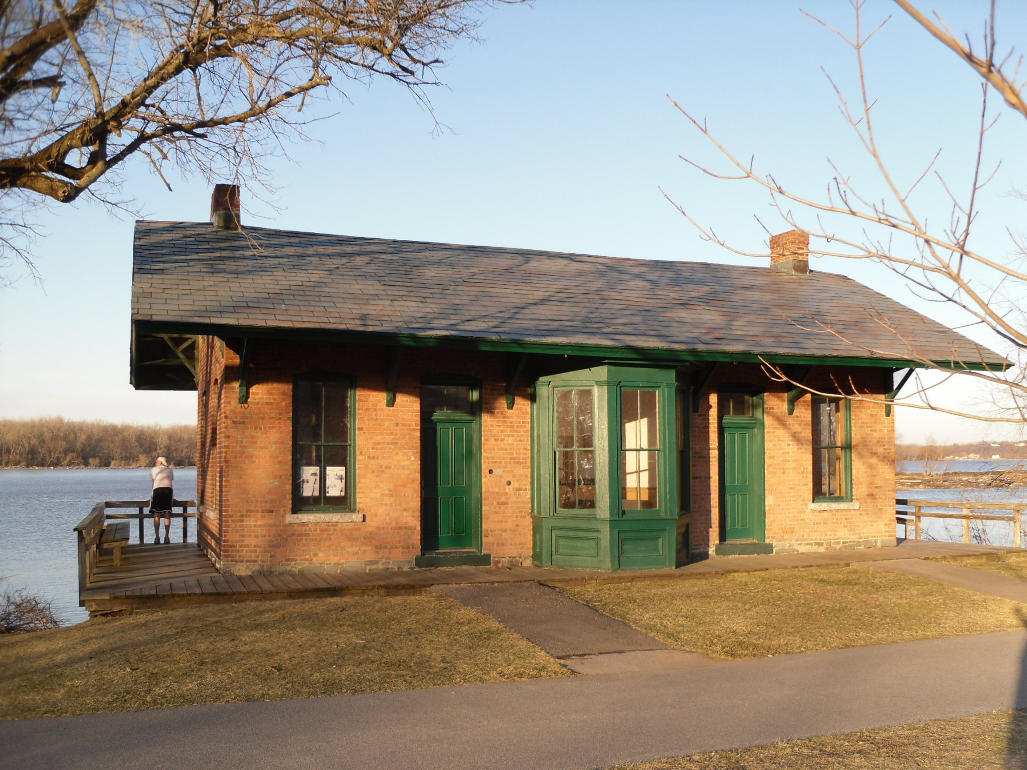 Erie Canal Trail - Niskayuna, New York